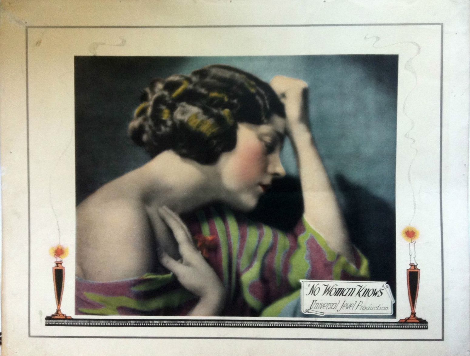 Lobby card for the 1921 film No Woman Knows.